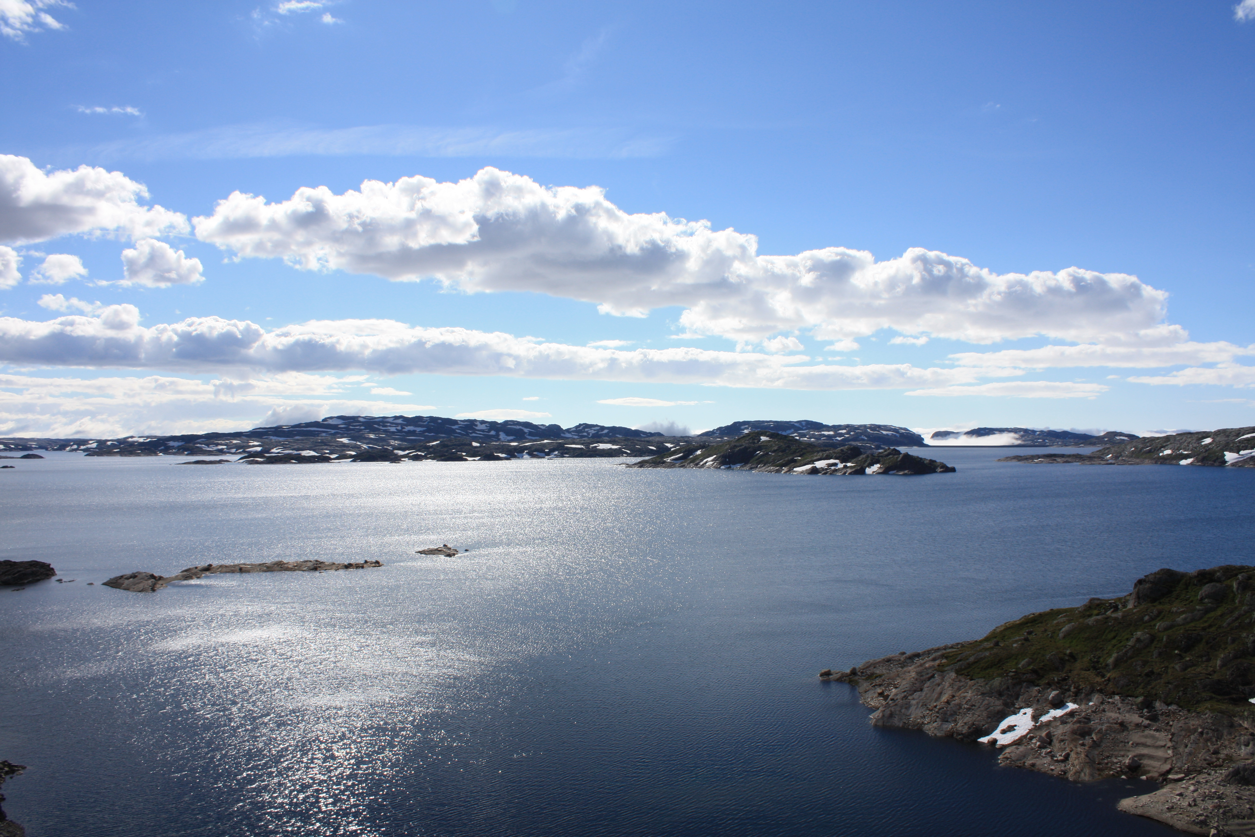 Blåsjø with Førrevassdammen to the right, part of Ulla-Førre